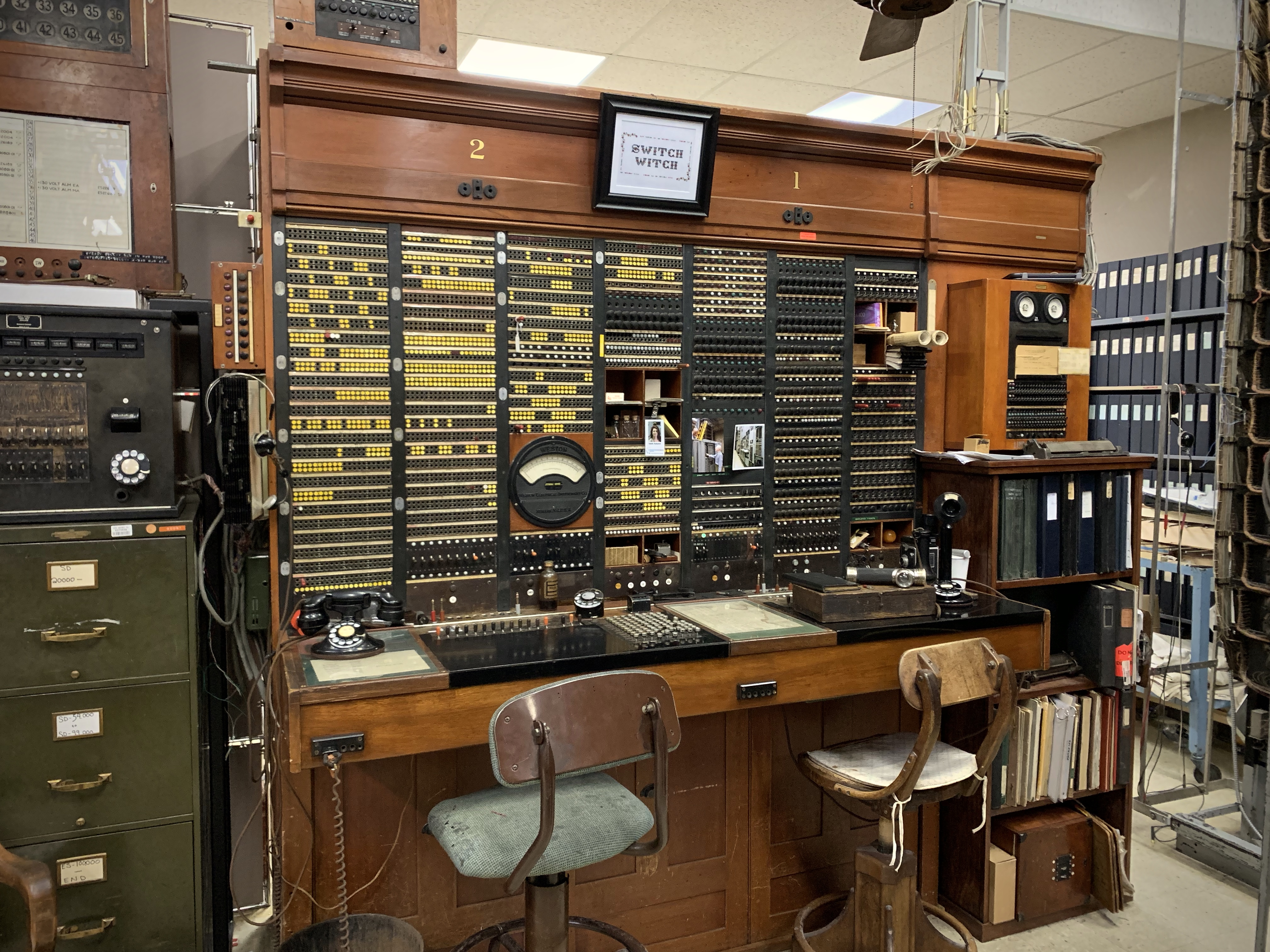 This is a photo of the OGT desk for the panel office in the Connections Museum, Seattle. The desk provides a centralized test location, and contains a multitude of test, alarm, and talking circuits. Although this appears similar to an operators switchboard, it was never used for that purpose.